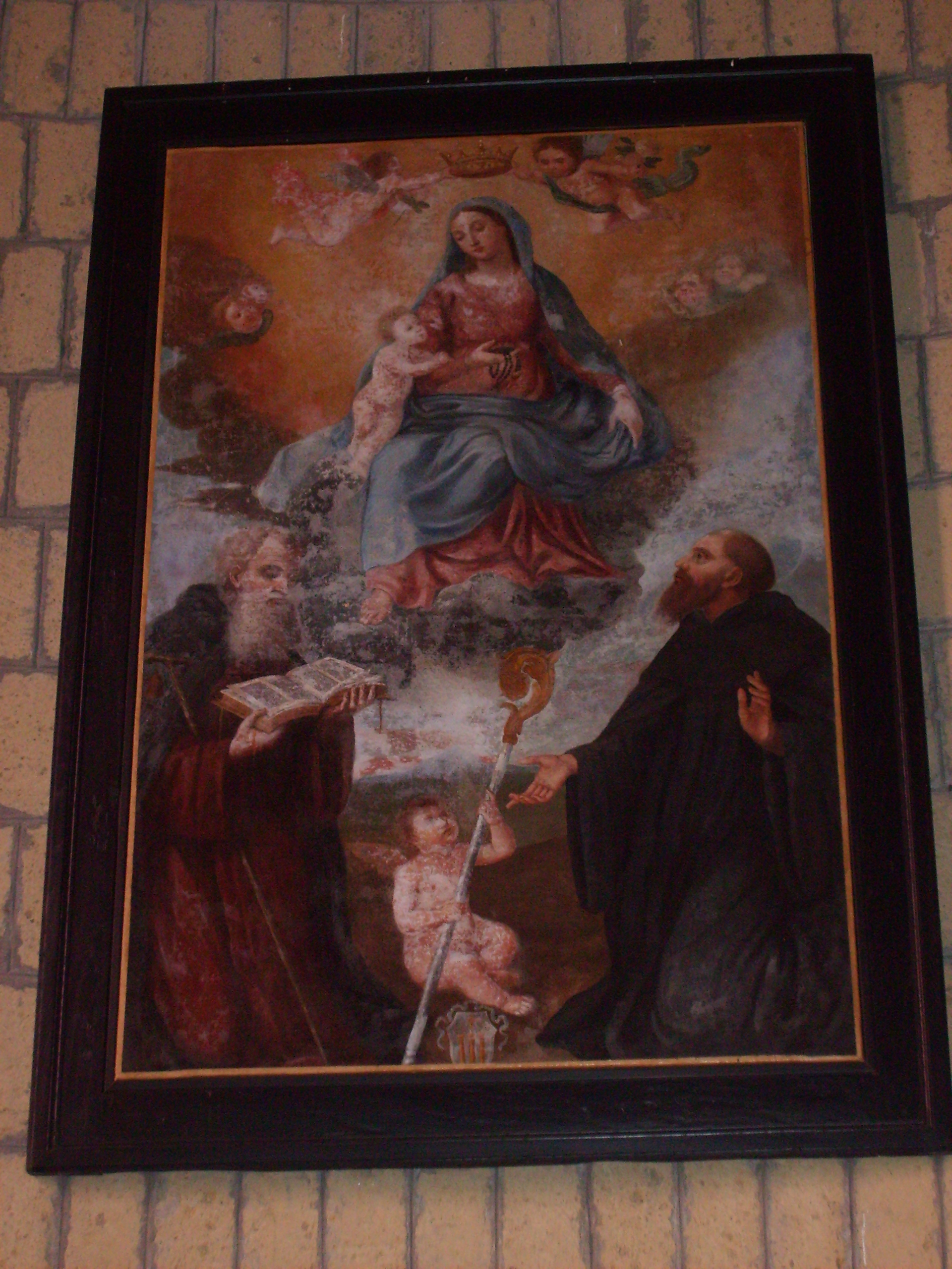 Madonna col Bambino in gloria con Sant'Antonio abate e San Benedetto, Sienese School, 17th century, in the church of San Benedetto in Pomonte, Scansano, Grosseto.